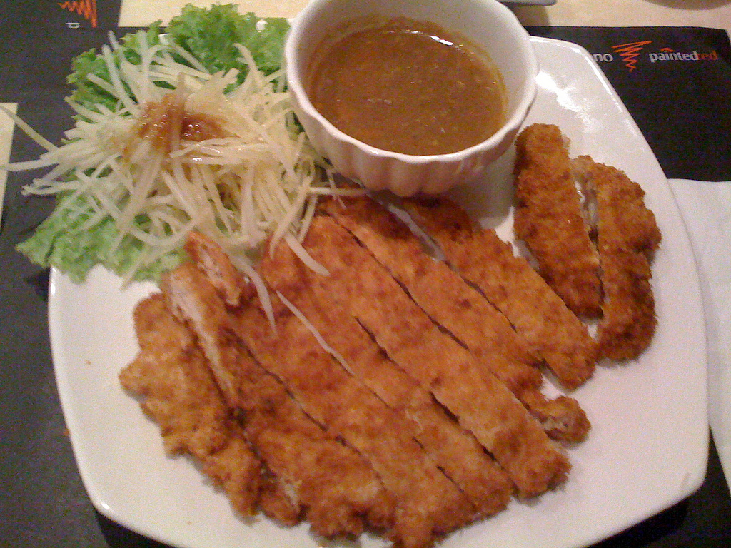 It was great. RedKimono